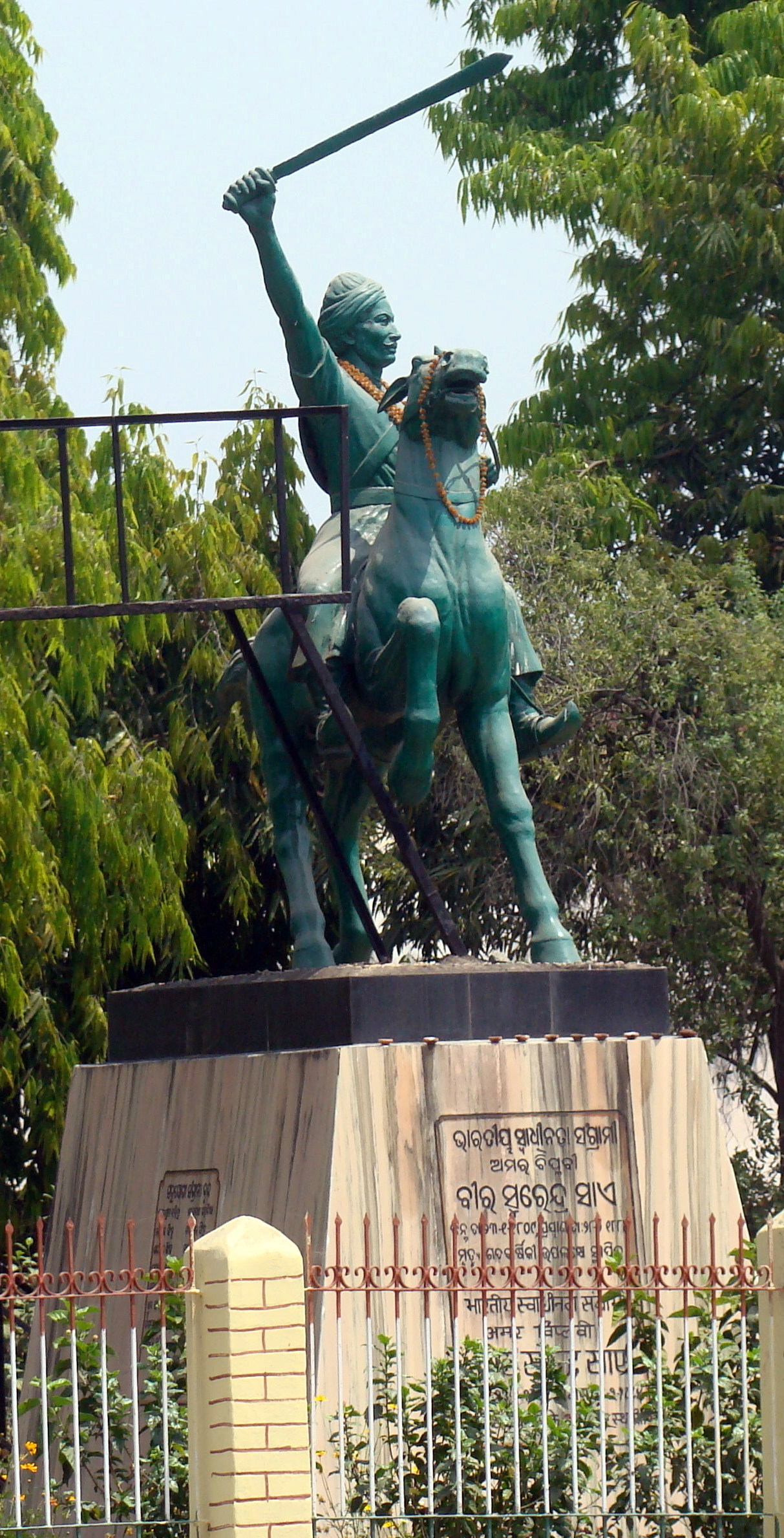 Located at Sambalpur.